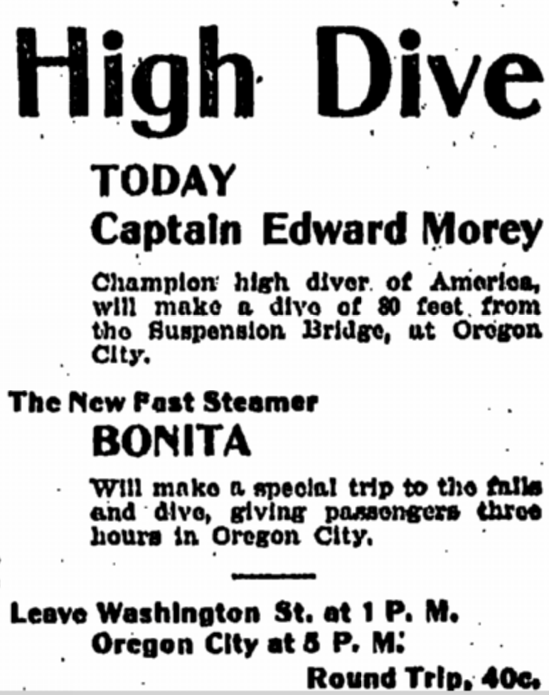 Advertisement for a high diver jumping off Oregon City suspension bridge, and steamer excursion to see same, placed April 22, 1900 in Sunday Oregonian.